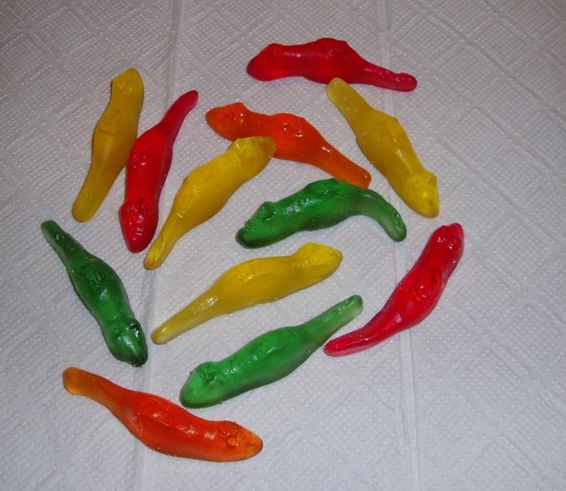 "Big rats" - swedish gummi candy